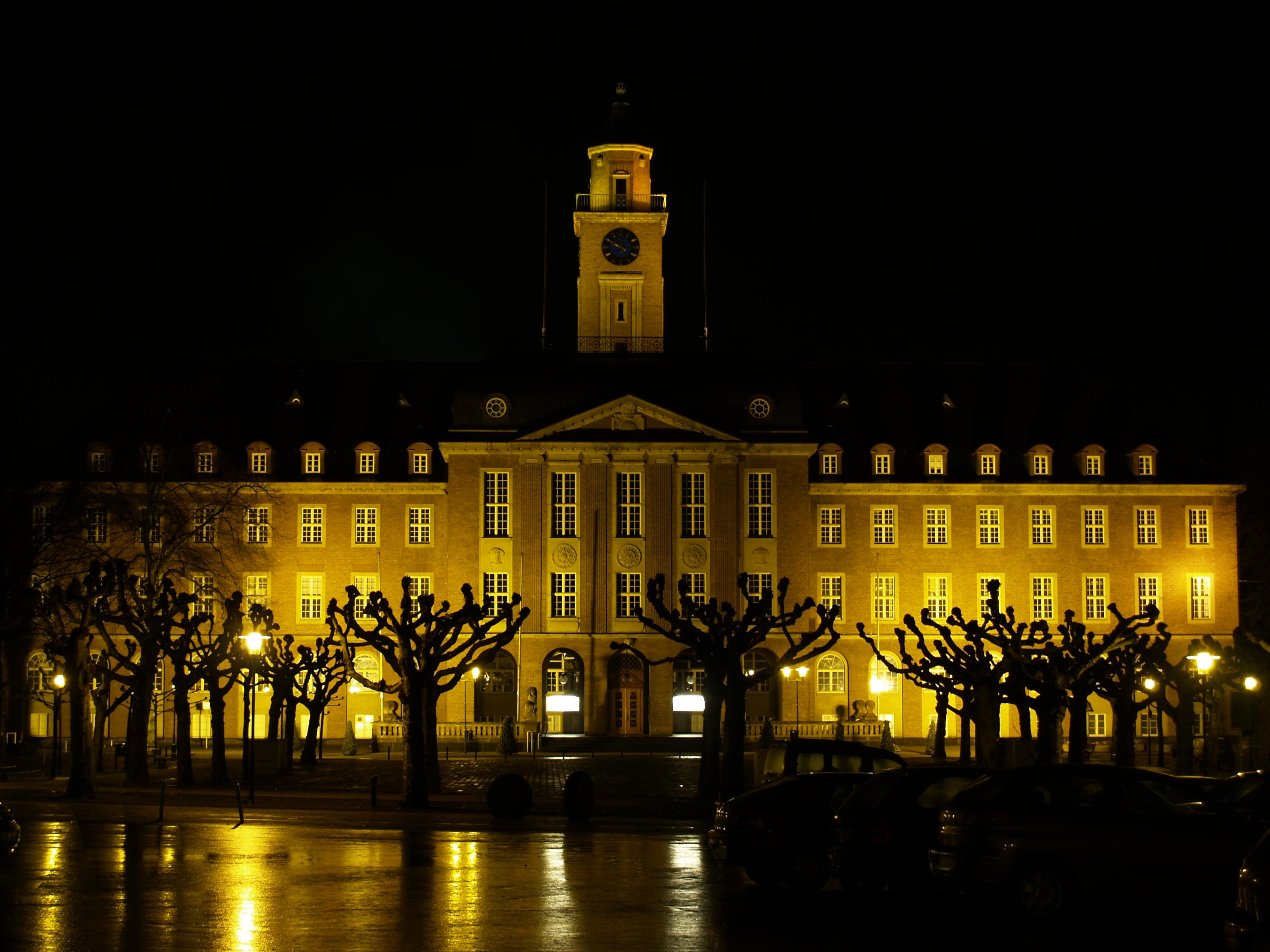 Town hall of Herne in the night